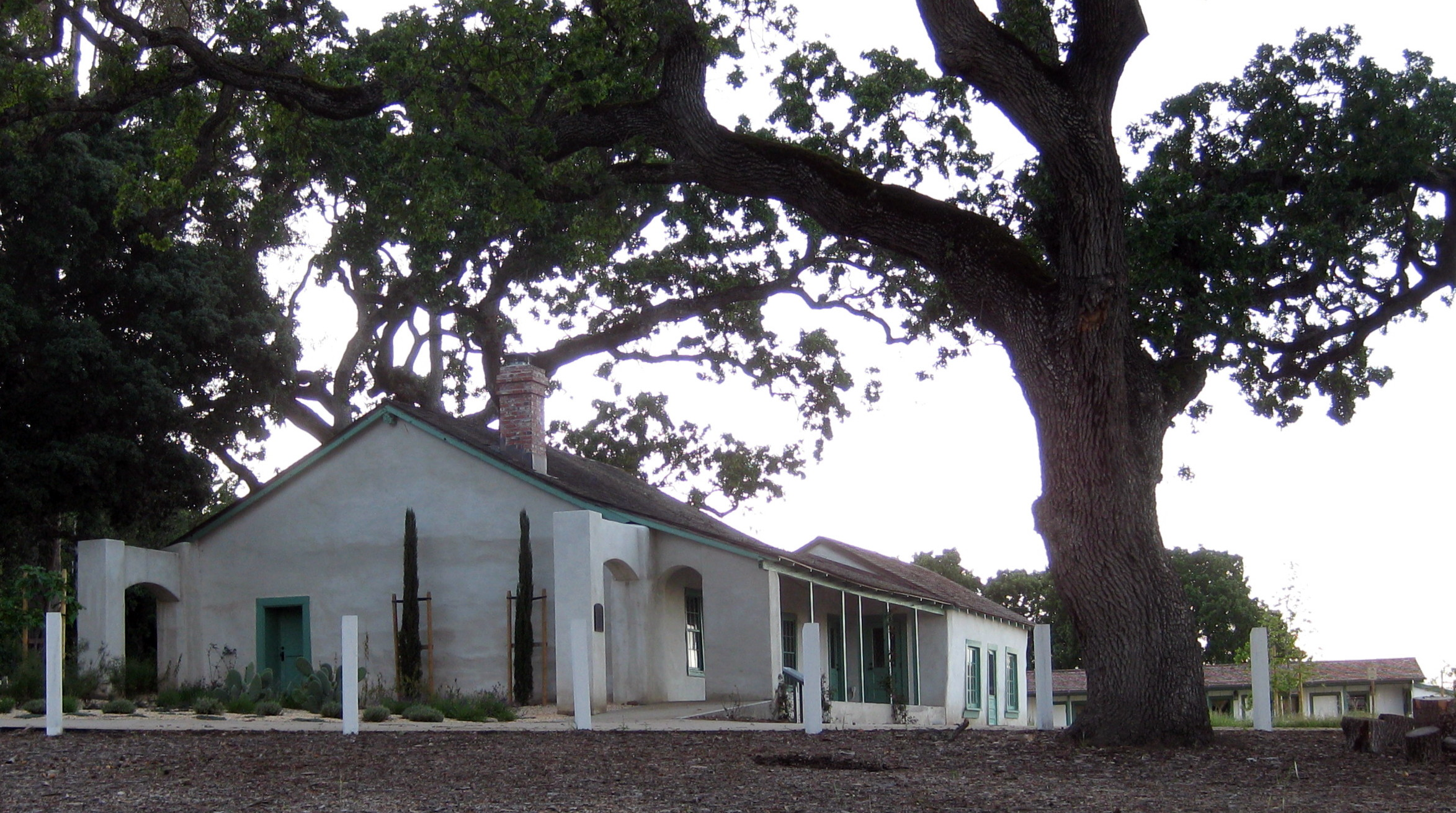 Alviso Adobe Community Park, showing the Alviso Adobe building